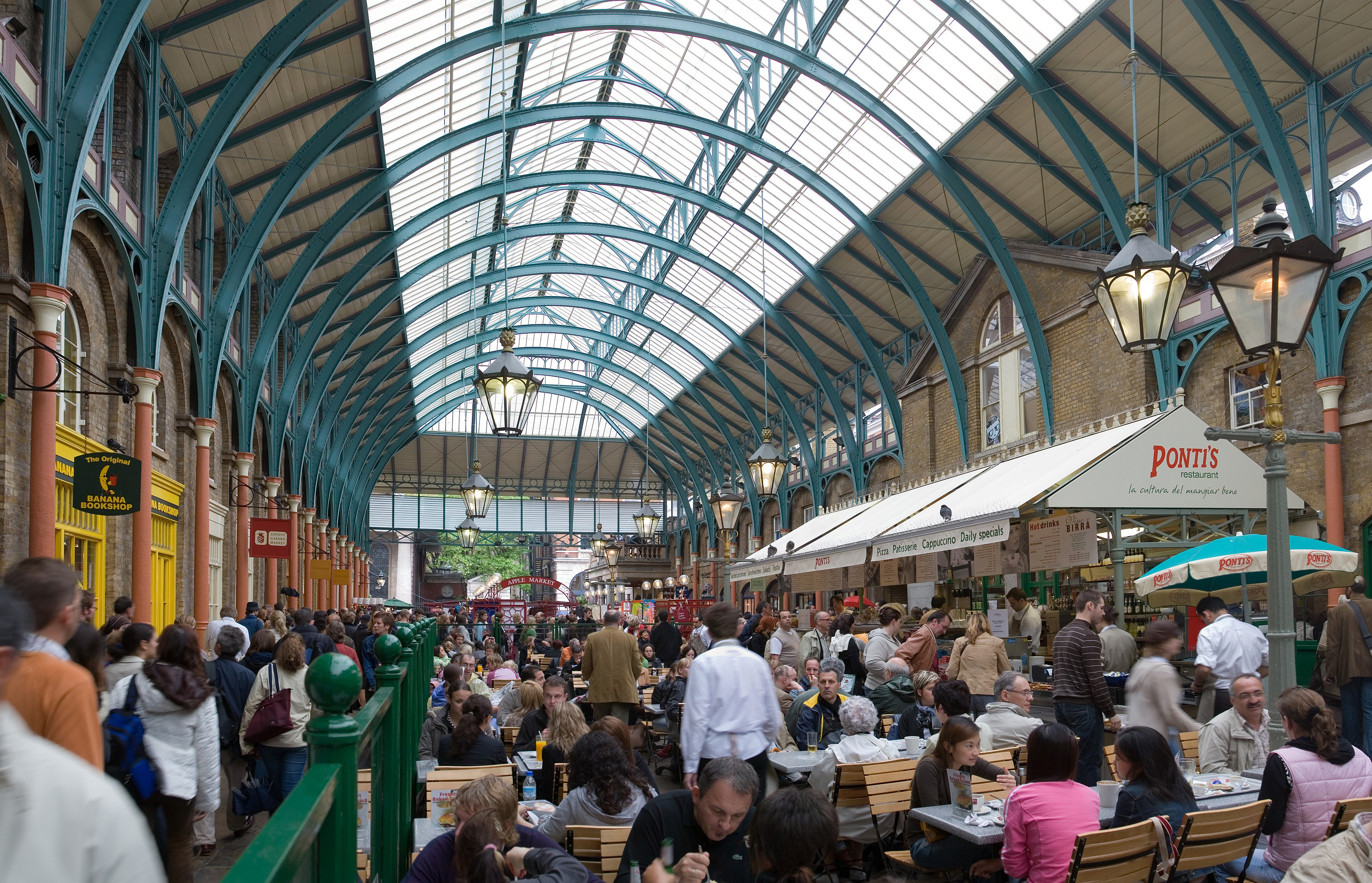 The interior of Convent Garden Market, London.